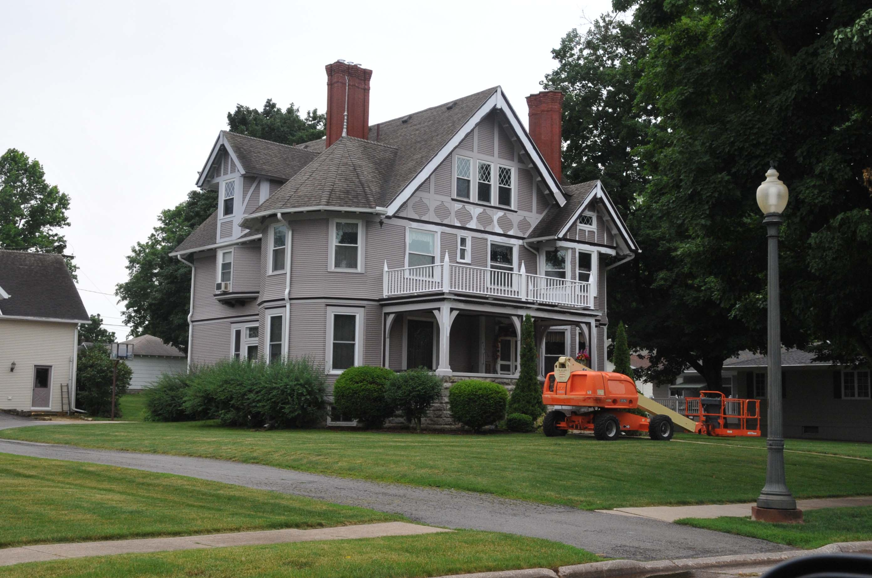 HOME OF PROMINENT PHYSICIAN, DR. D.N. LOOSE; STICK STYLE ARCHITECTURE